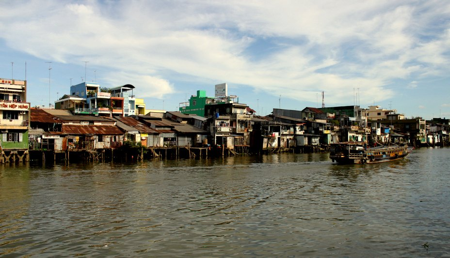 waterfront houses in My Tho, South Vietnam.